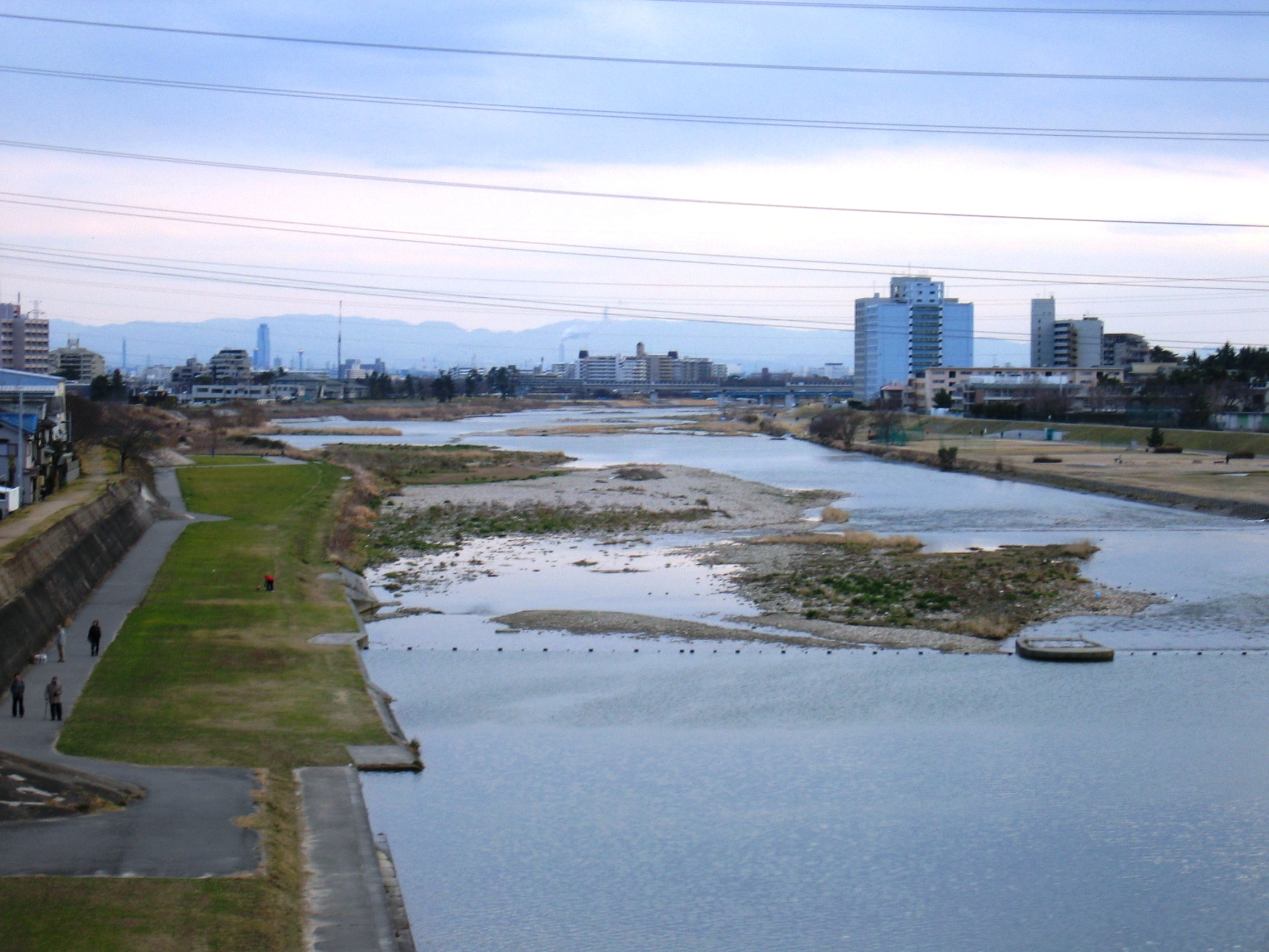 Muko River. Southside view From Mukogawa-Shinbashi Bridge